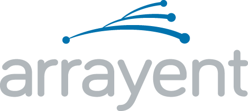 Arrayent logo